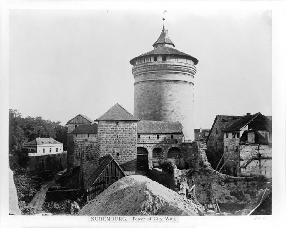 Nuremburg. Tower of City Wall.